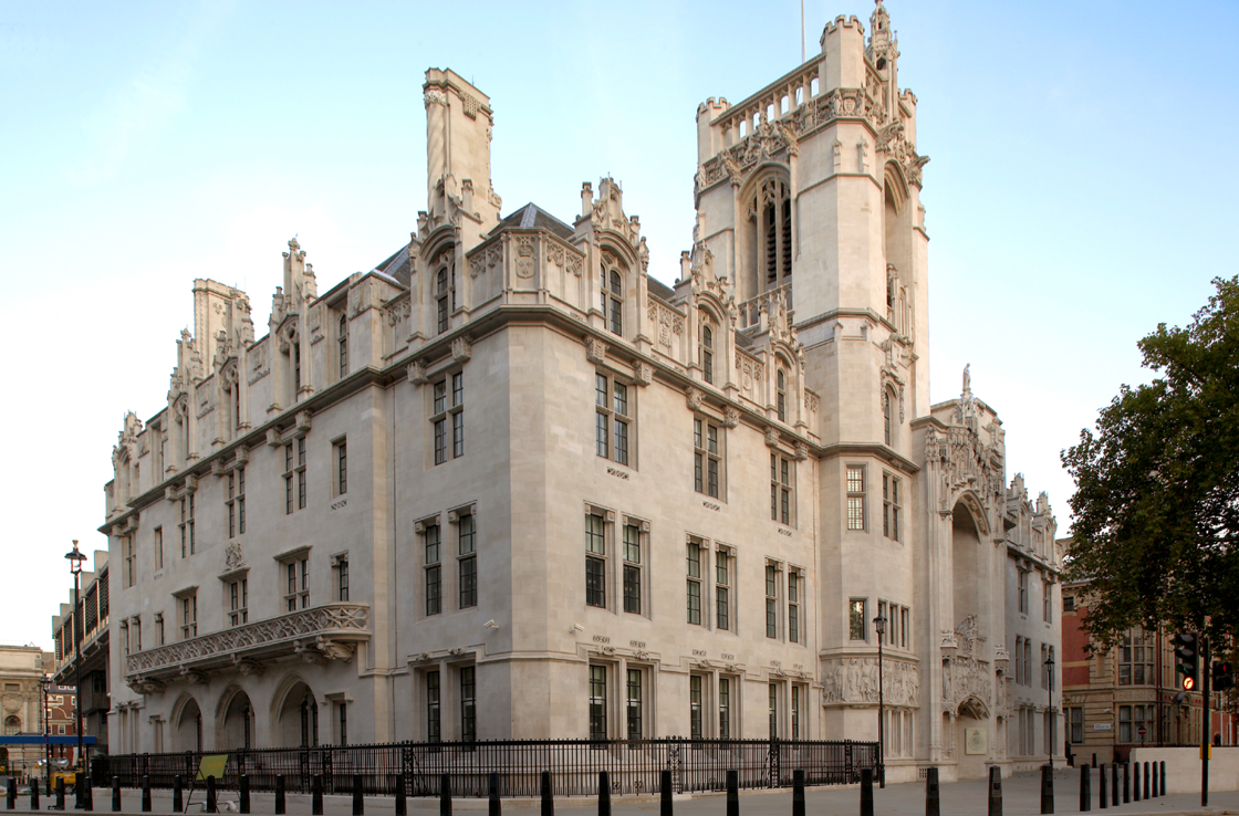 Exterior, Supreme Court of the United Kingdom